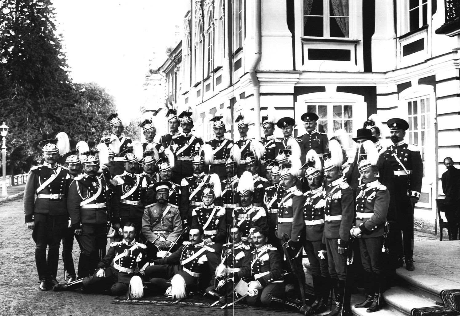 Parade with the highest presence of 8th Voznesensky Lancers in Peterhof.